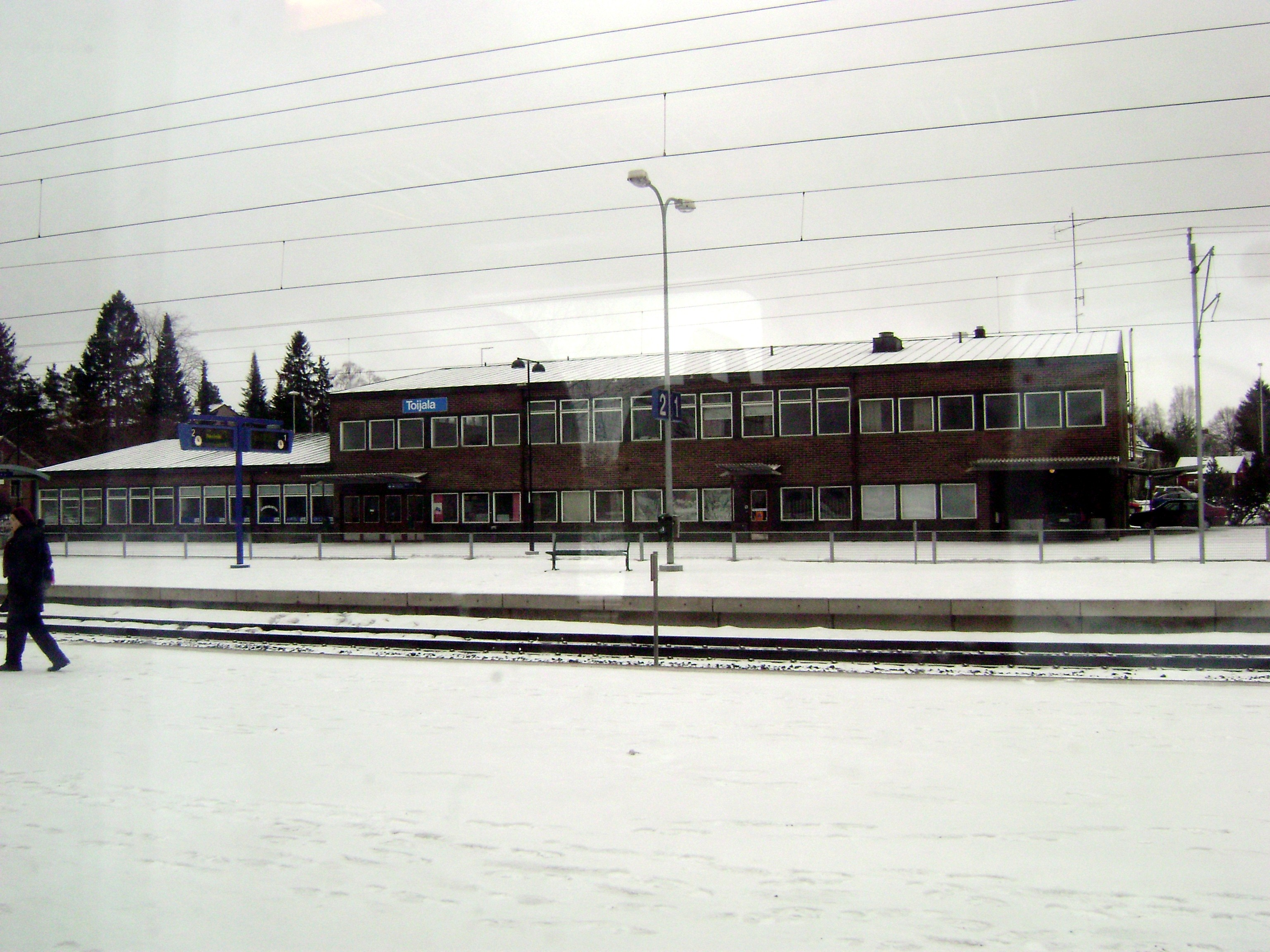 Toijala railway station in Akaa, Finland